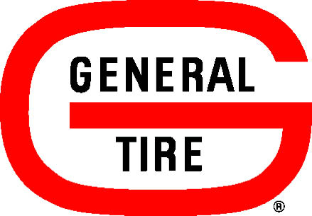 General Tire Logo used from 1960 thru the 1990's